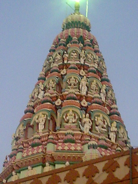 The shikara of the Rukmini's cella in the Vithoba temple complex, Pandharpur